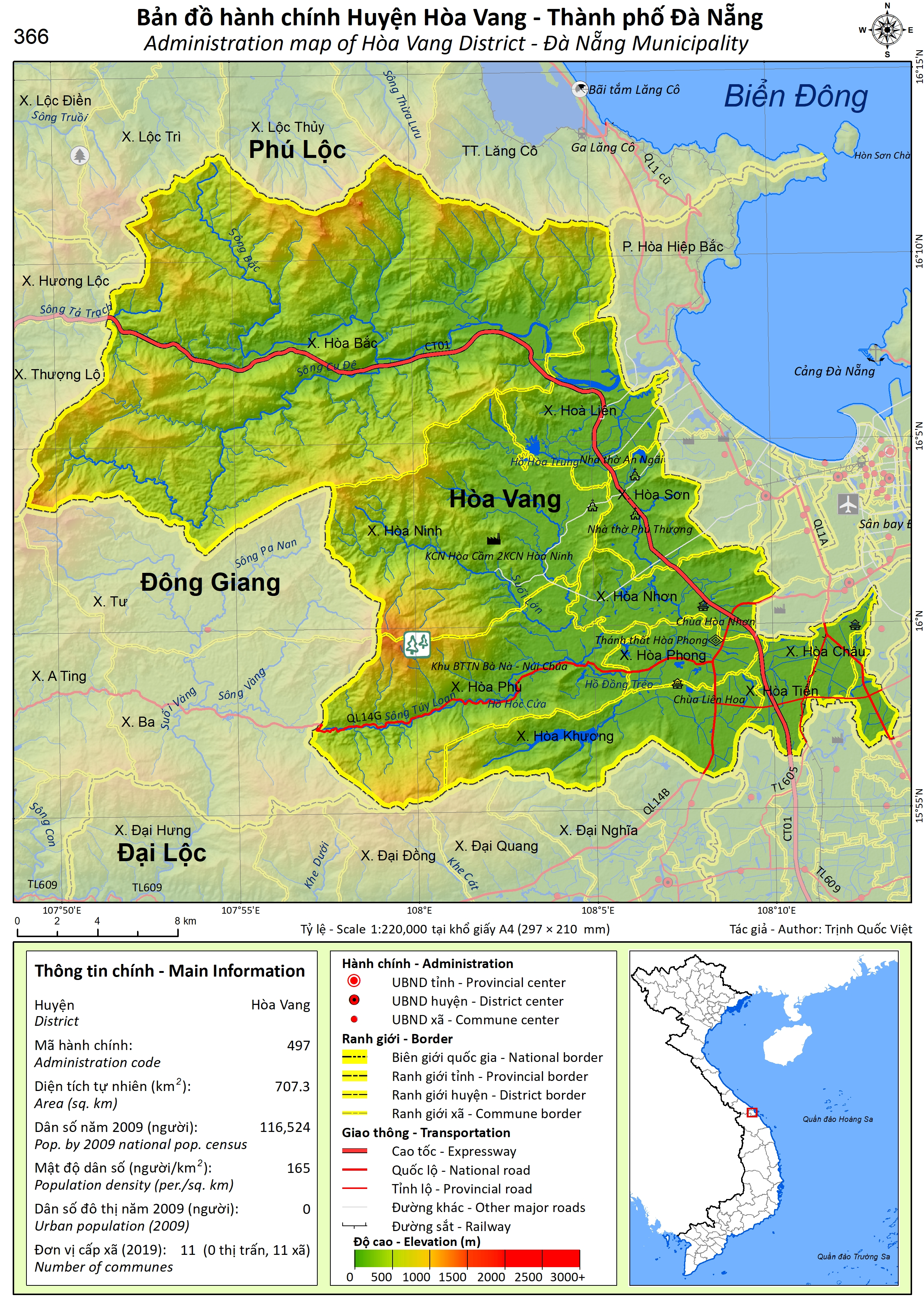 Administration map of Hoa Vang District, Danang City